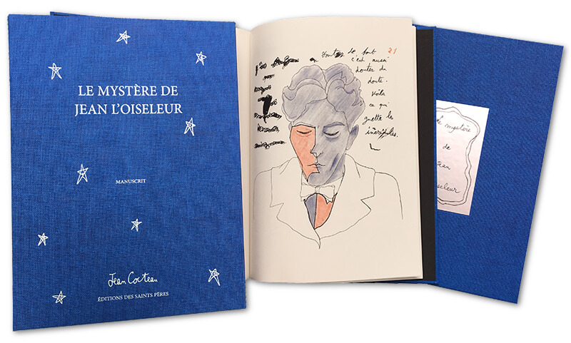 The Mystery of Jean the Bird Catcher